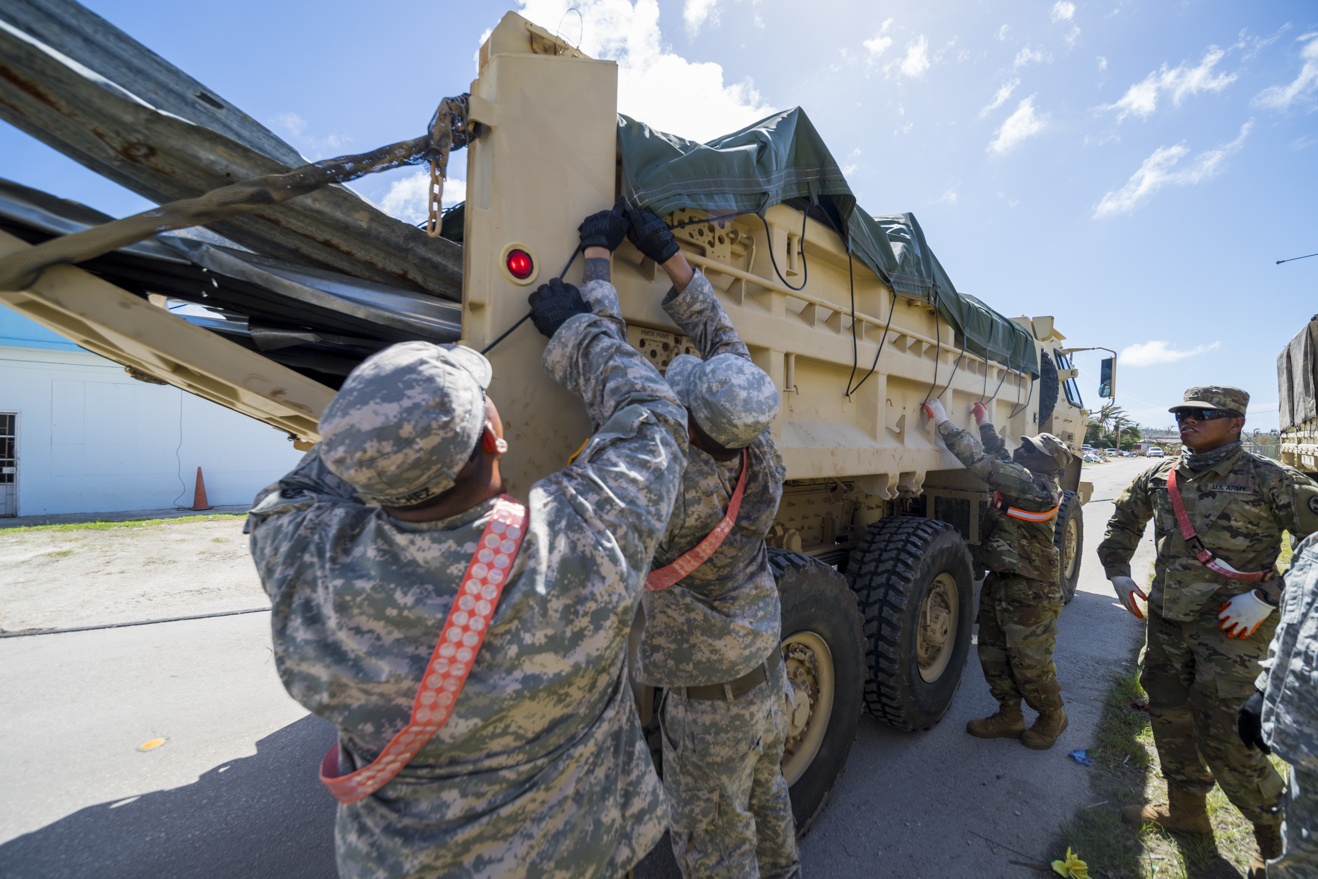 Guam Army National Guardsmen assigned to the 1224th Engineer Support Company, secures a tarp on a dump truck during debris clean-up in the village of Chalan Kanoa, Saipan, Commonwealth of the Northern Mariana Islands, Nov. 9, 2018, as part of the Super Typhoon Yutu relief efforts. Service members from Joint Region Marianas and U.S. Indo-Pacific Command are providing Department of Defense support to the CNMI's civil and local officials as part of the FEMA-supported Super Typhoon Yutu recovery efforts. U.S. Air Force photo by Tech. Sgt. Christopher Ruano